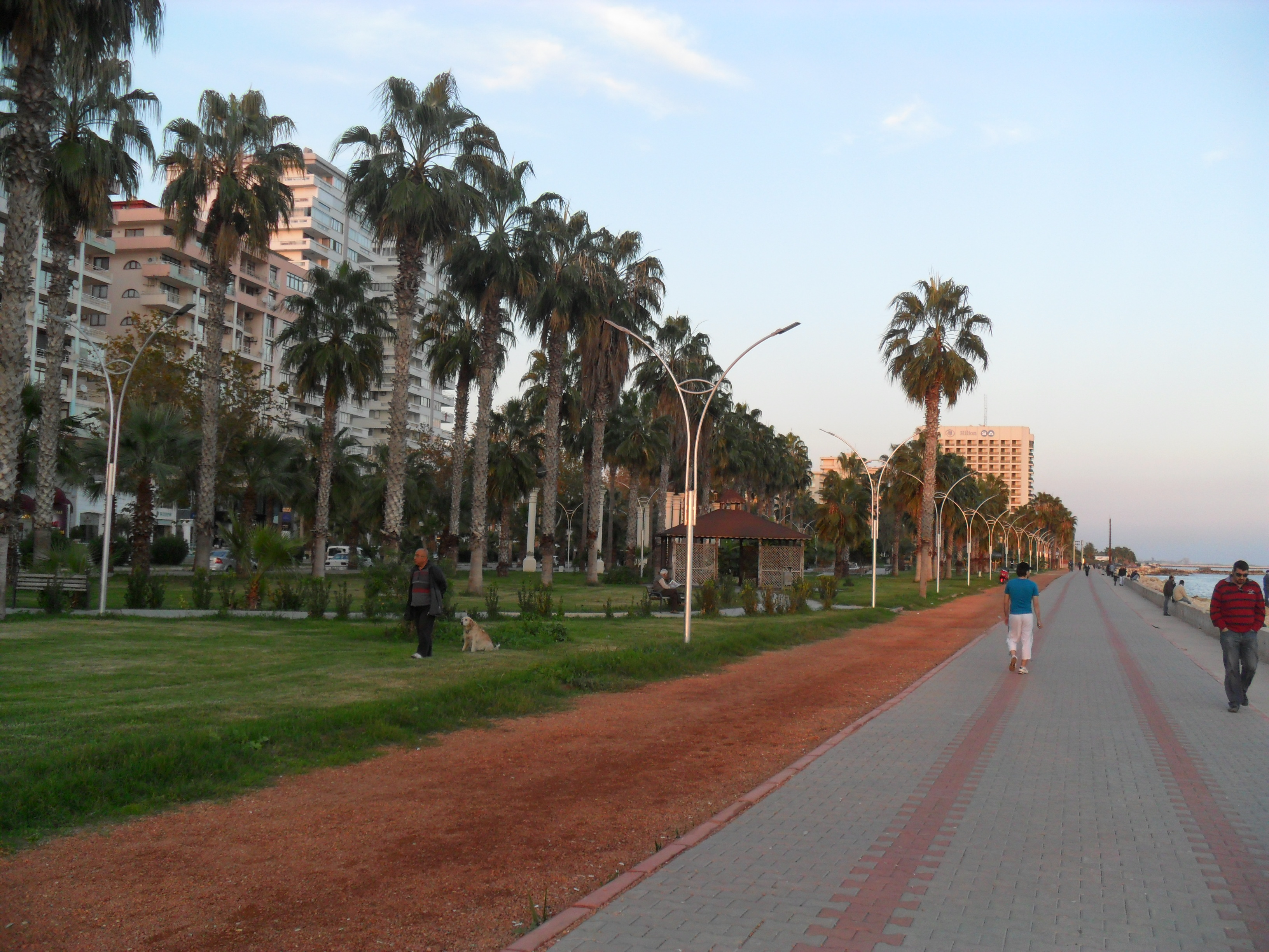 Mersin Yenişehir promenade to east